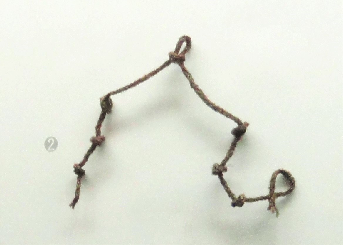 Rope knot writing system of the Va (Wa). The three big upper knots represent having lent 3,000 Dian Yuan. One big and one small knot in the middle represent 1.5 Dian Yuan as interest on the loan for one year and a half. The three big lower knots represent having lent the money for one and a half years. Section of Rope knot writing systems of the (1) Hani, (2) Va, (3) Nu, and (4) Derung (Dulong) people of China. Manuscripts / writing systems in the Yunnan Nationalities Museum, Kunming, Yunnan, China.